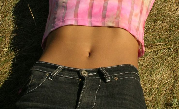 Female crop top.